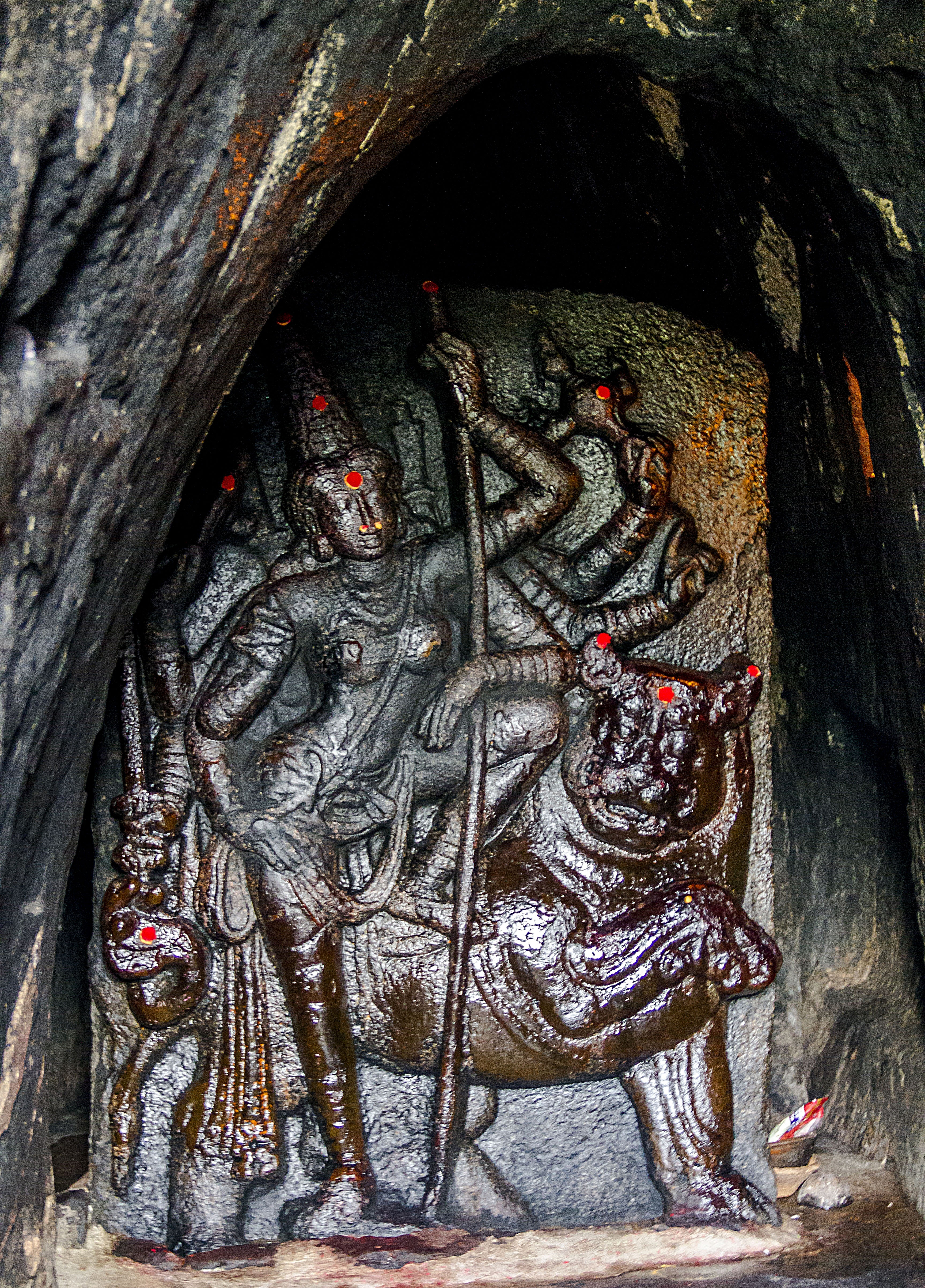 An image of durga under the panamalai hiil